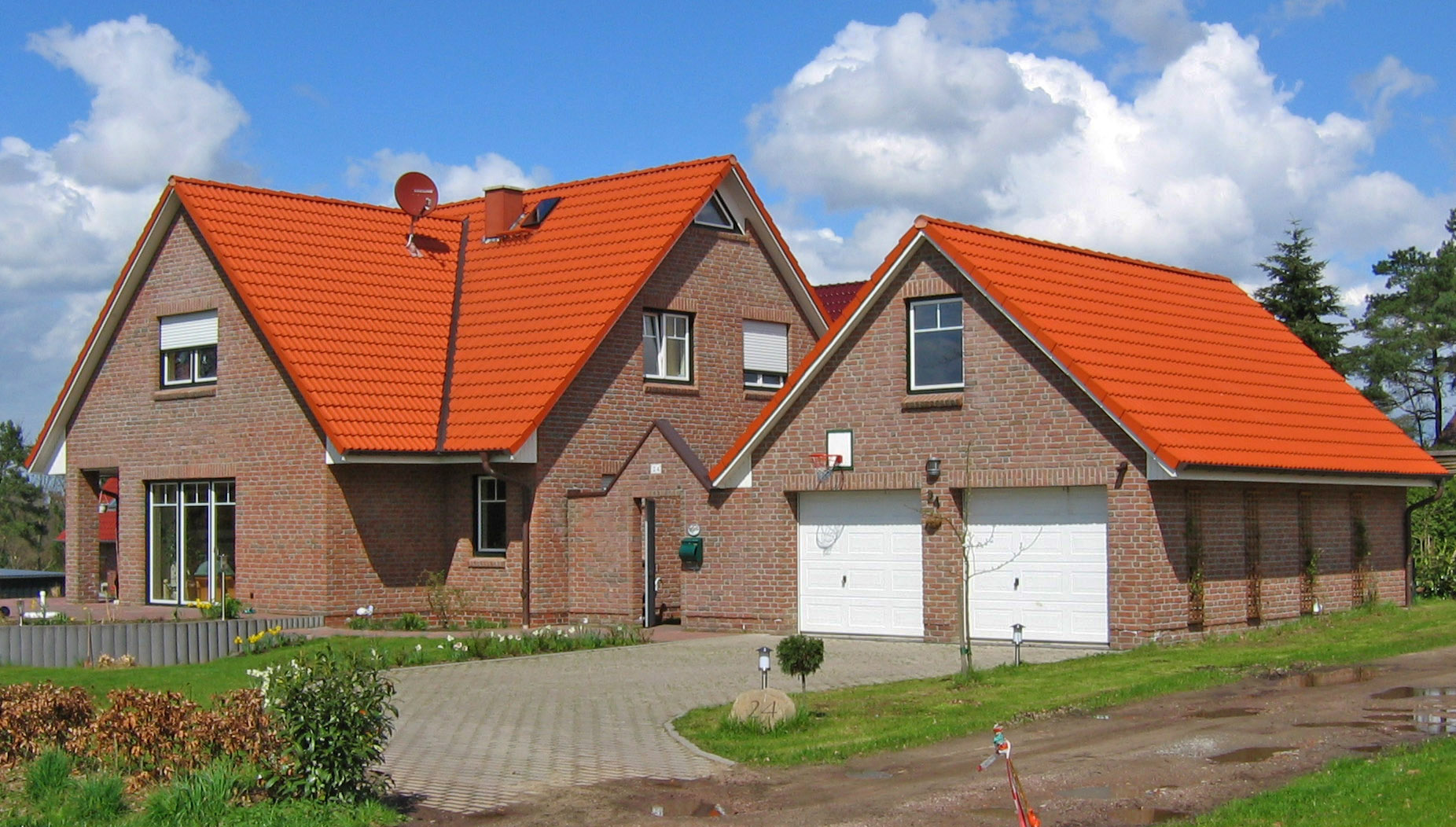 Newly developed single-family home in northern Germany - Norddeutsches Neubauhaus